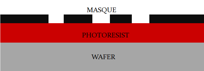 Schema of contact phtolithography